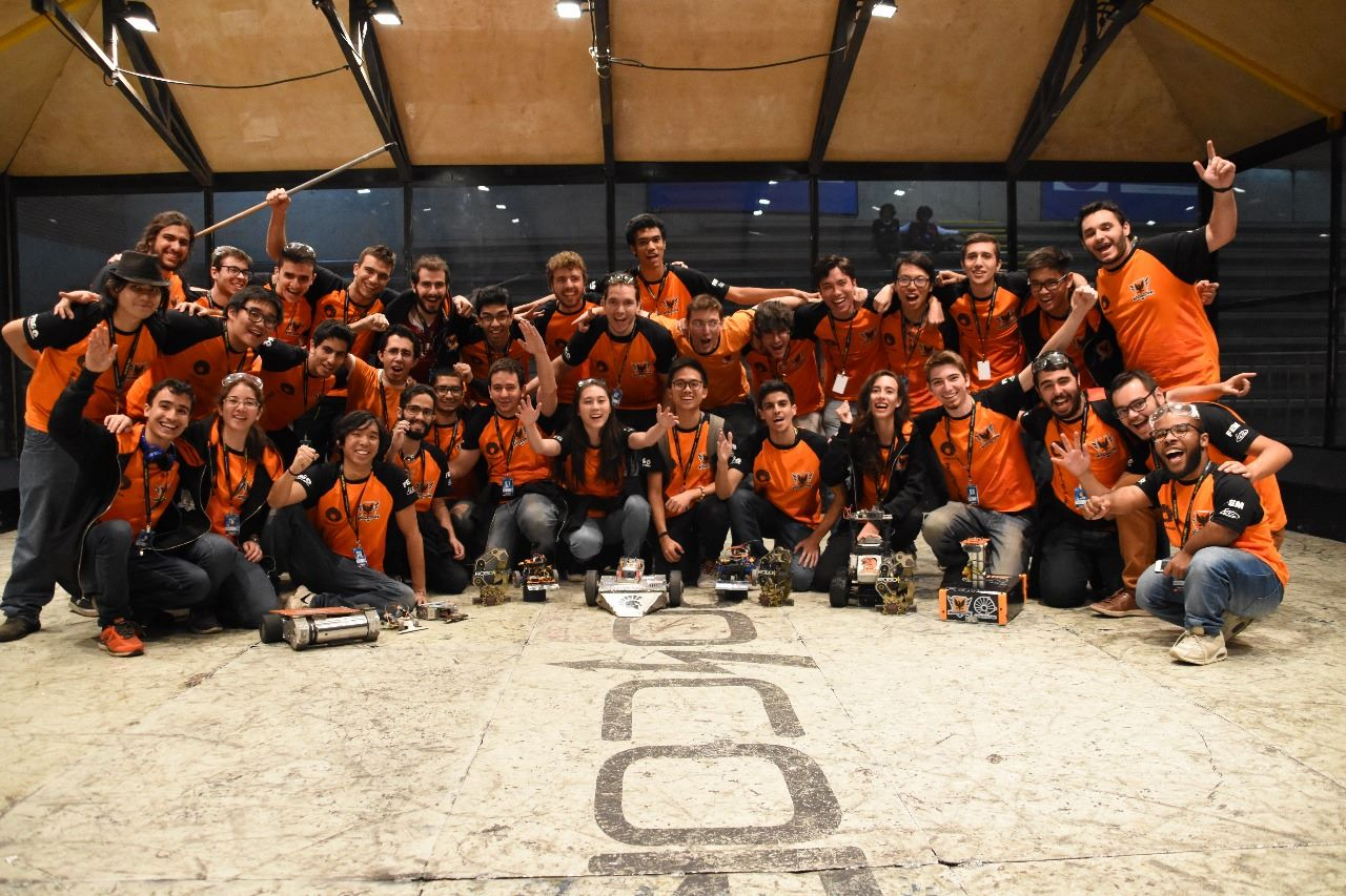 Picture of the Phoenix Robotics Team members that participated in Winter Challenge 14 in 2018